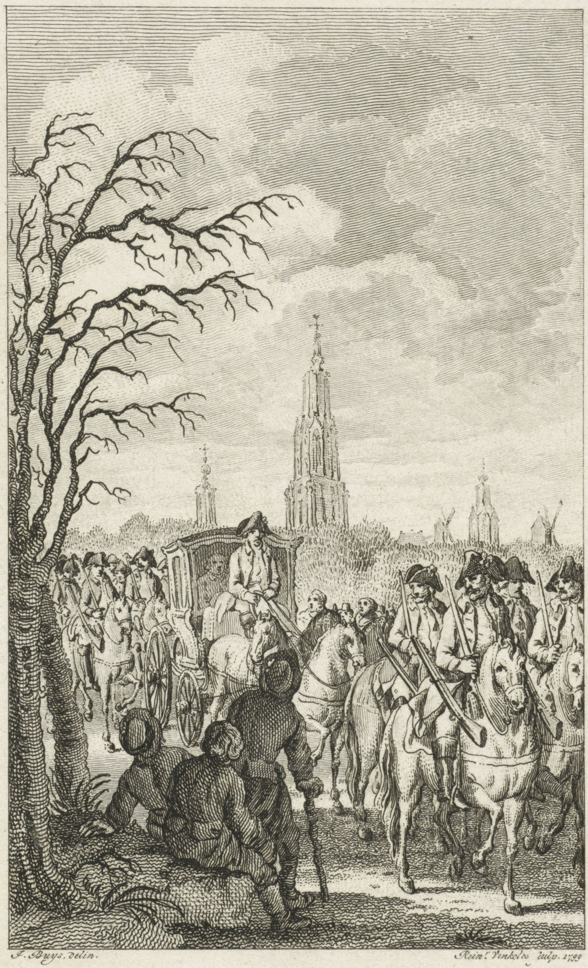 Engraving of chancelor J.A. van Crumpipen being brought back from Breda to Brabant on 14 November 1789 (Reinier Vinkeles (I), after Jacobus Buys, 1799)